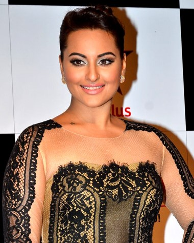 Actress Sonakshi Sinha at the 2014 BIG Star Entertainment Awards